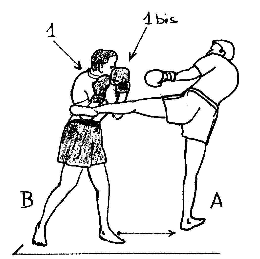 Blocking